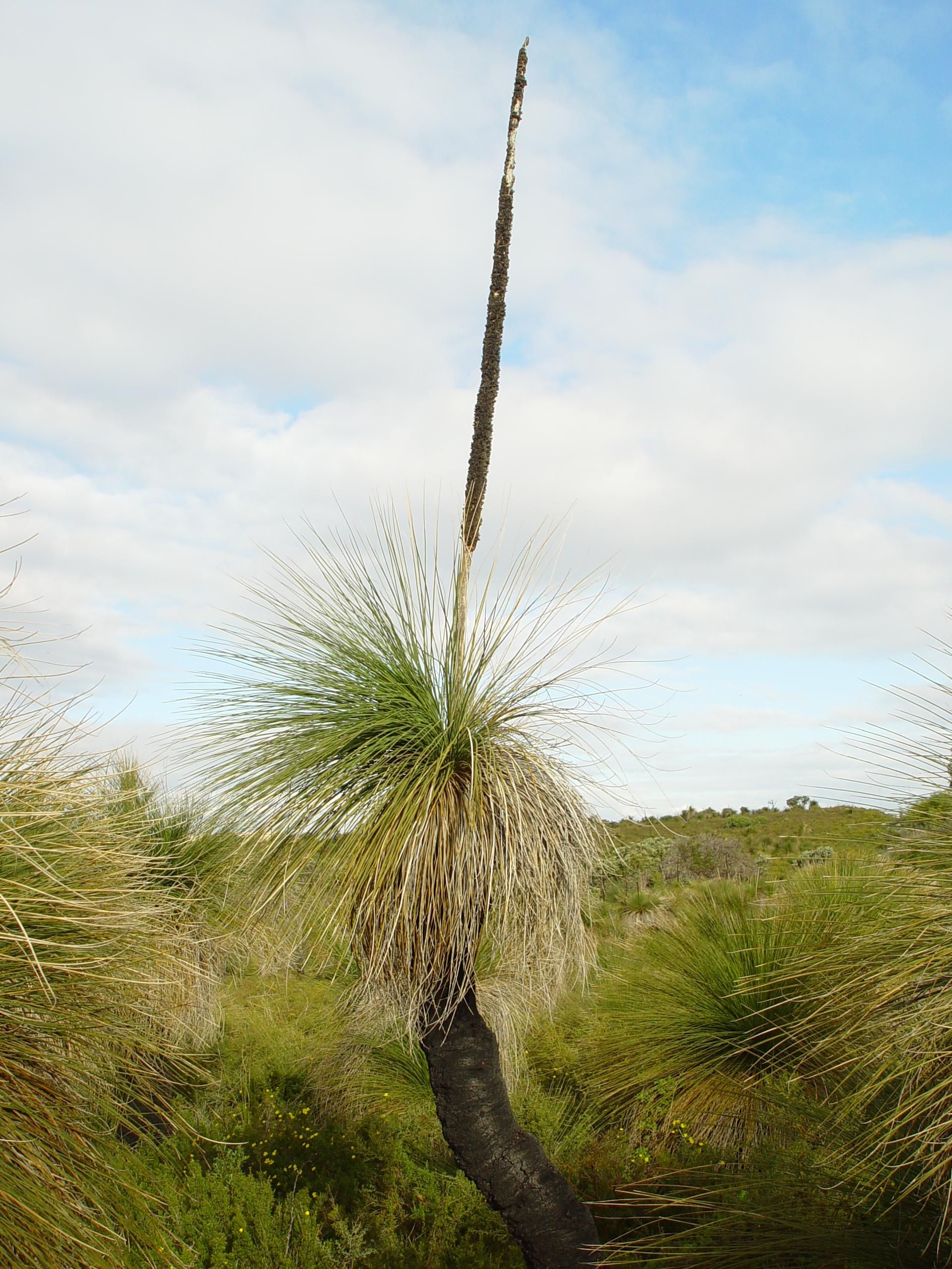 Image title: Xanthorrhoea australis with dried inflorescence Image from Public domain images website